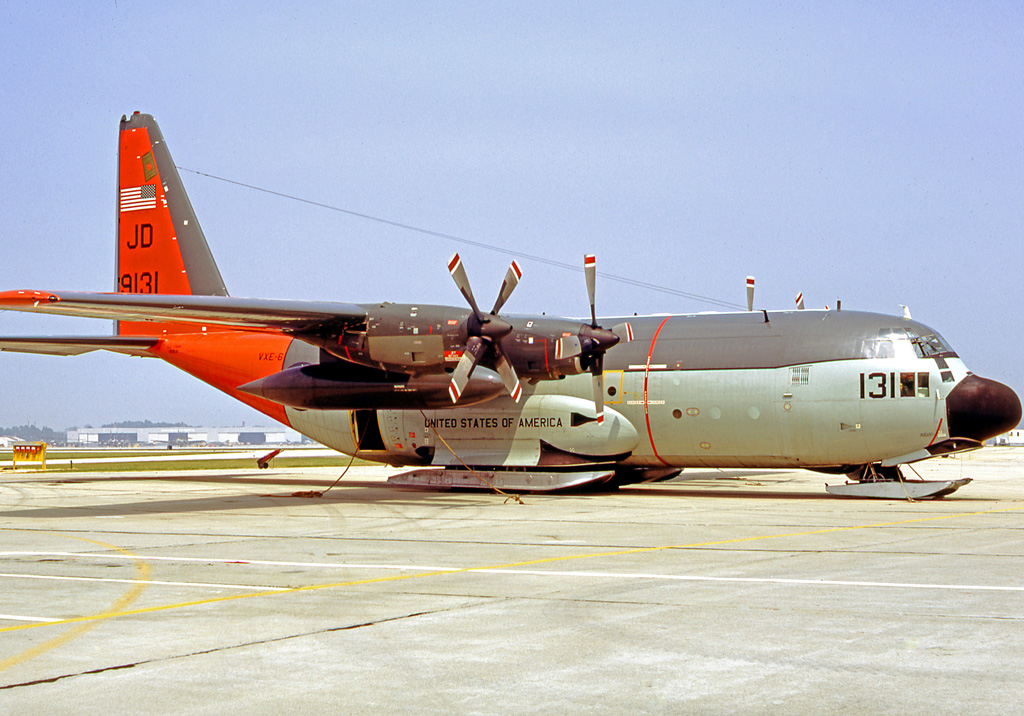 Lockheed LC-130R Hercules 159131 of VXE-6 Squadron US Navy at Marietta Georgia in 1974. 159131 crashed site D59, Antarctica on 9 December 1987 during a supply flight with spares to support the recovery of the LC-130F 148321 that had crashed in 1971.